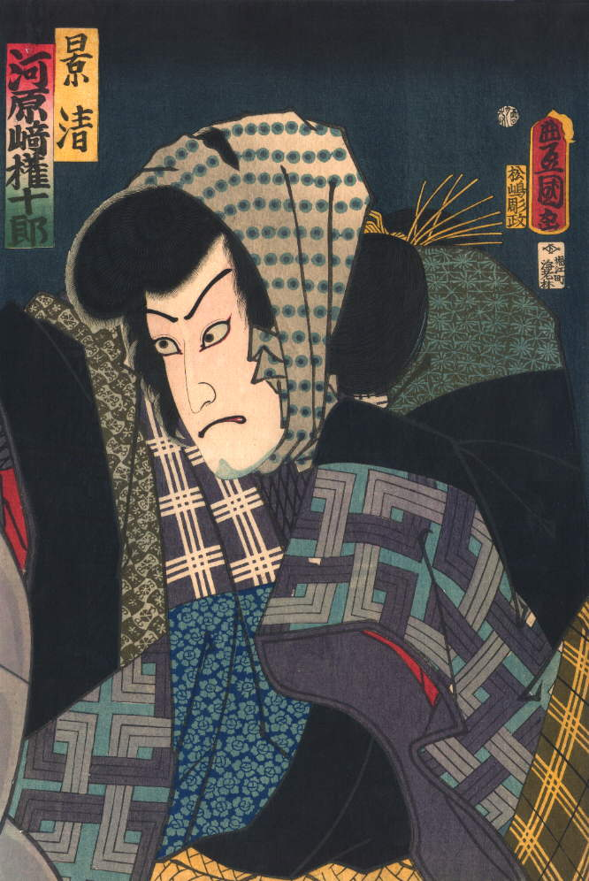 The Kabuki actor Kawarasaki Gonjūrō I (1838-1903; later Ichikawa Danjuro IX); signed Toyokuni; 1861.